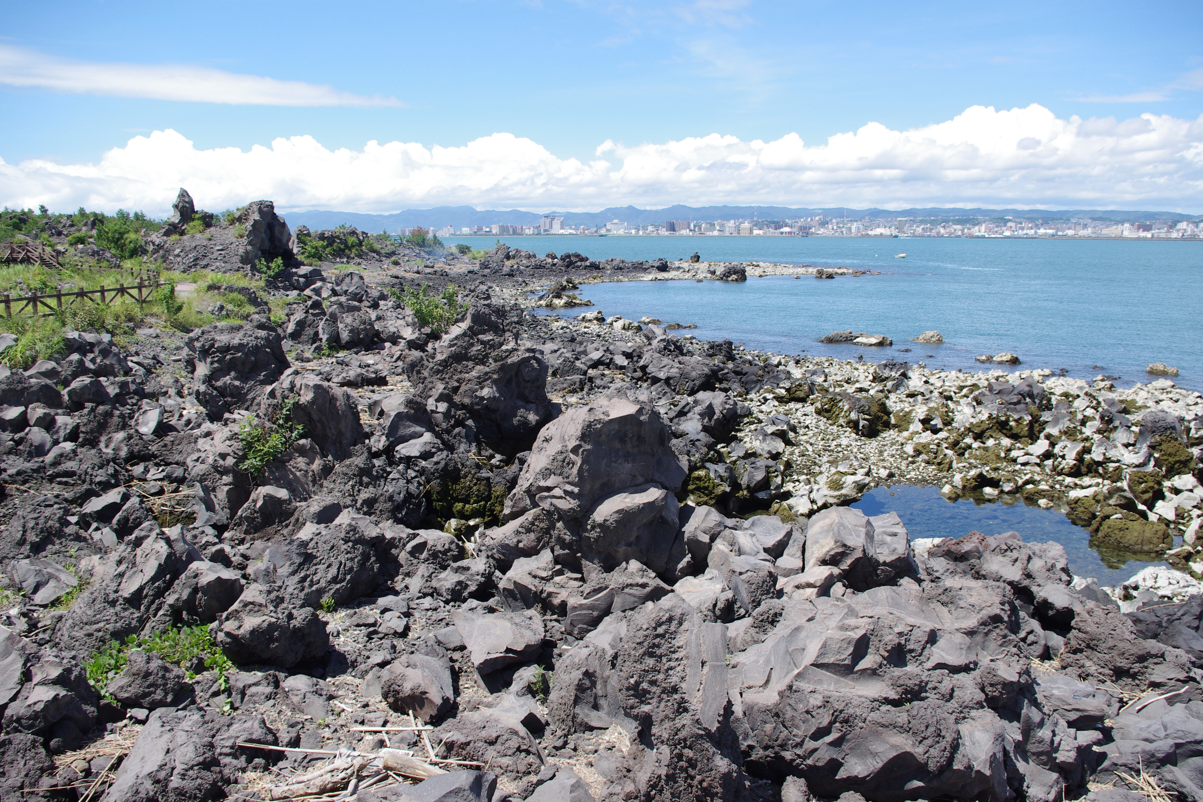 Lava rocks along Nagisa Lava Trail on Sakurajima